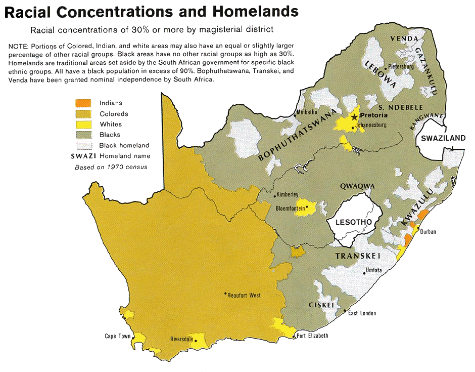 Map showing the territorial four main races/ethnicities/colors of South Africa in 1979: Whites, Coloureds, Blacks and Indians. The gray areas indicate the Apartheid-era Bantustans, which are almost exclusively black. This map is a photoshopped version of the CIA-made original map at Perry Castañeda map collection at the University of Texas website.